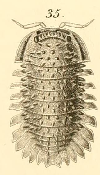 "Armadillo echinatus" = Diploexochus echinatus Brandt, 1833